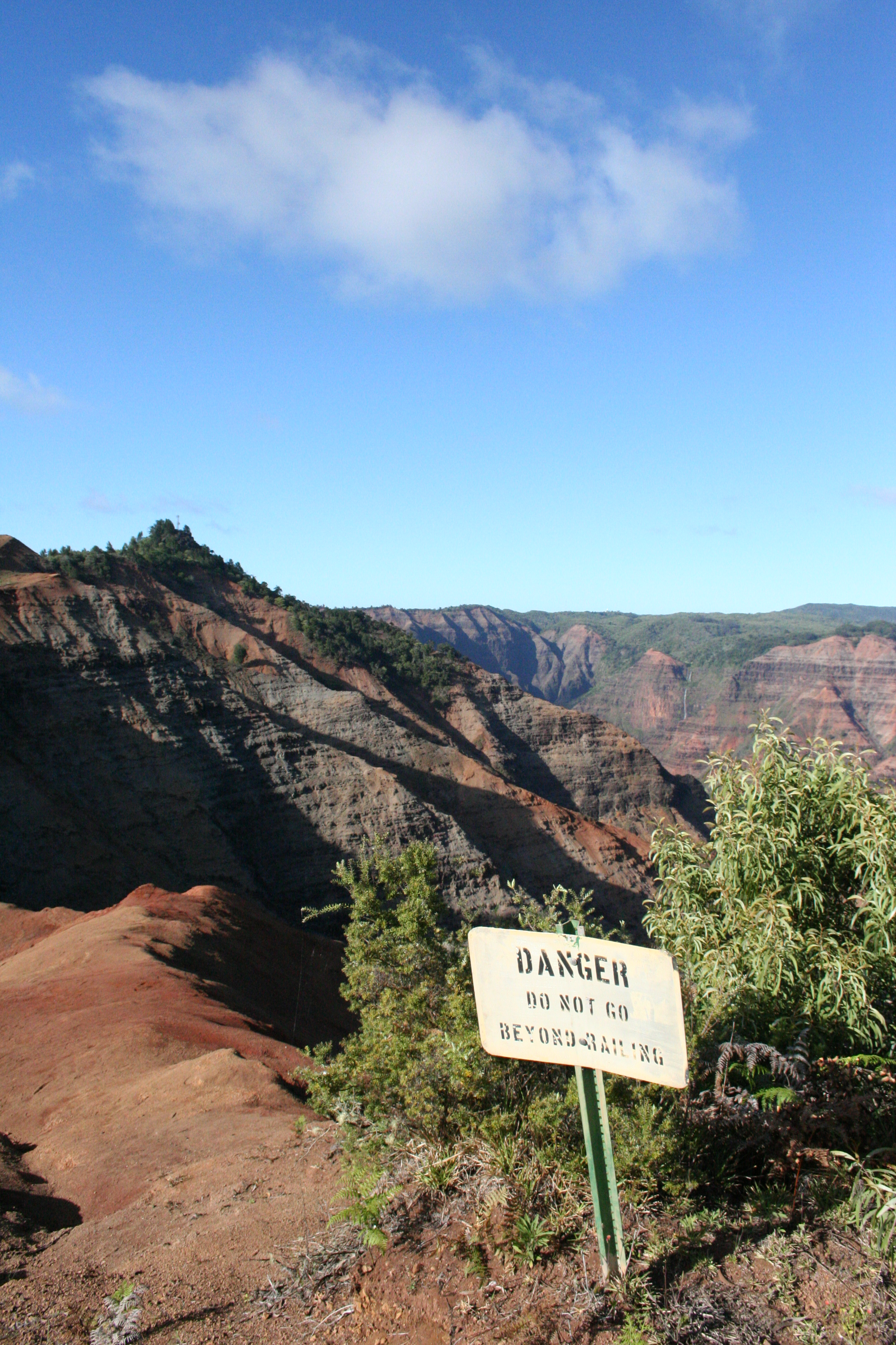 A warning sign along a ridgeline, near Waimea, Hawaii